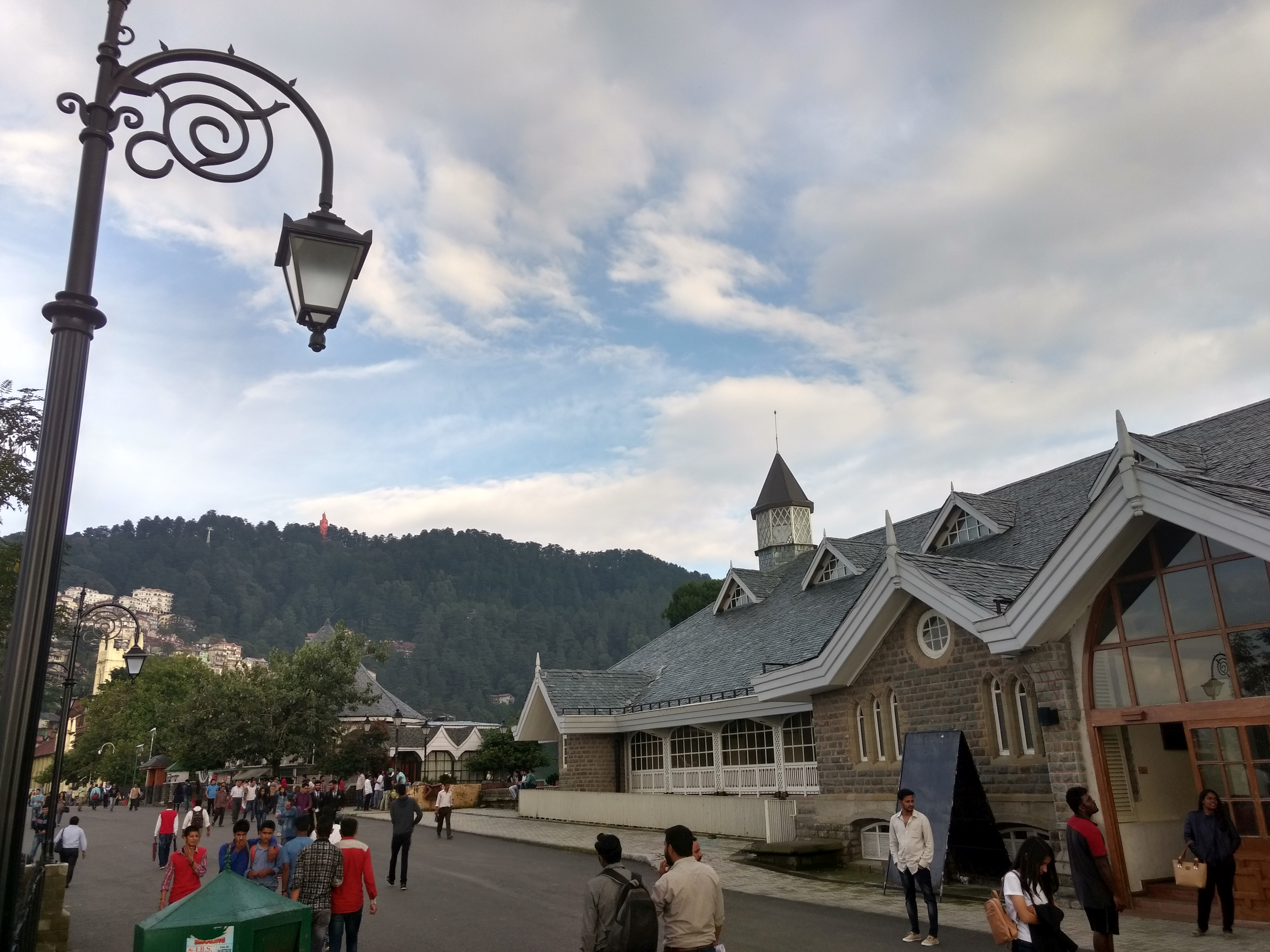 Gaiety theater, Shimla